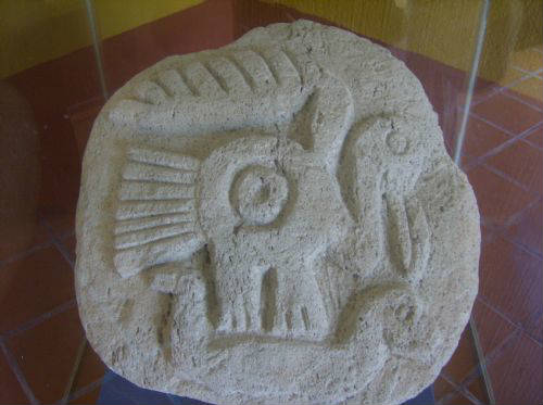 Ancient rock in a museum, called "Museo del Origen" in Mexcaltitan Nayarit.